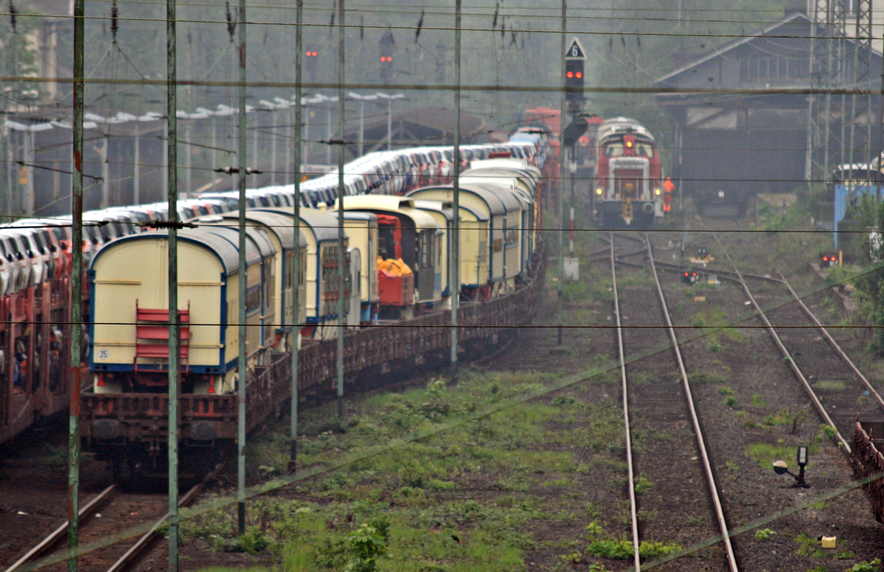 A freight train carrying the equipment of the Roncalli circus. View to railway station Bonn-Beuel in germany